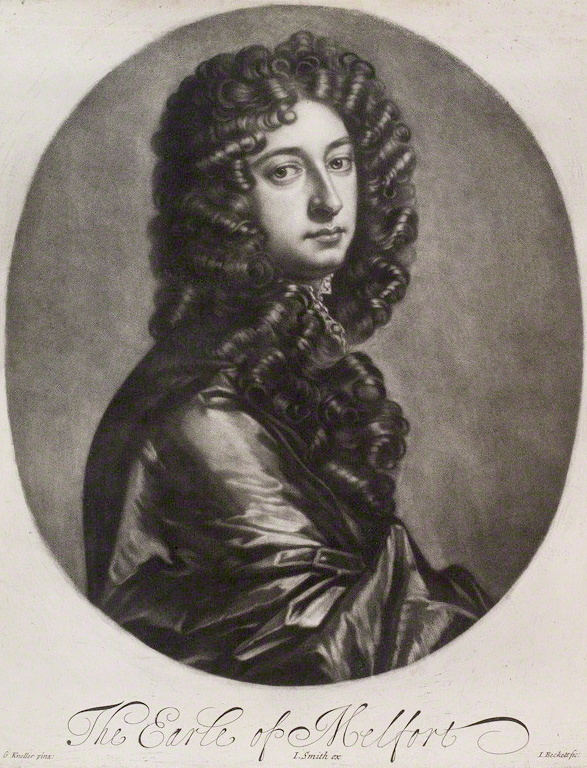 John Drummond, 1st Earl of Melfort (1649-1714)